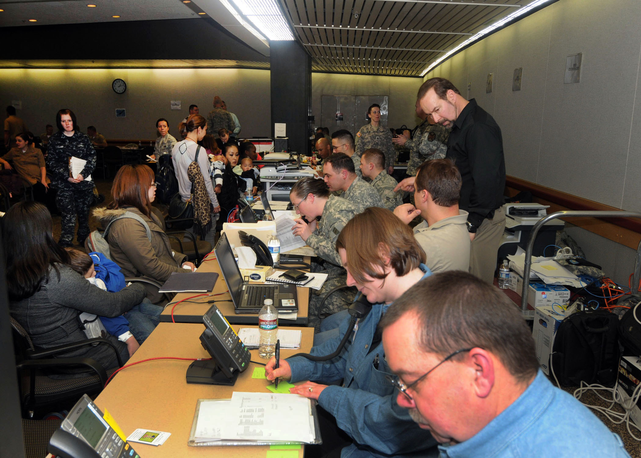 SEATTLE (March 21, 2011) More than 100 Sailors, Marines and civilians throughout Navy Region Northwest worked with their Army and Air Force counterparts along with other agencies including: SEATAC, Port of Seattle, Transportation Security Administration, U.S. Customs and Border Protection, and volunteers from the United Services Organization (USO) and American Red Cross. Teams are providing assistance to the more than 120 family members who arrived at Seattle Tacoma International Airport (SEATAC) from Japan as part of Operation Tomodachi. A projected 6,800 family members are expected to arrive at SEATAC as part of Operation Tomodachi on 20 separate flights. (U.S. Navy photo by Mass Communication Specialist 2nd Class Nathan Lockwood/Released)